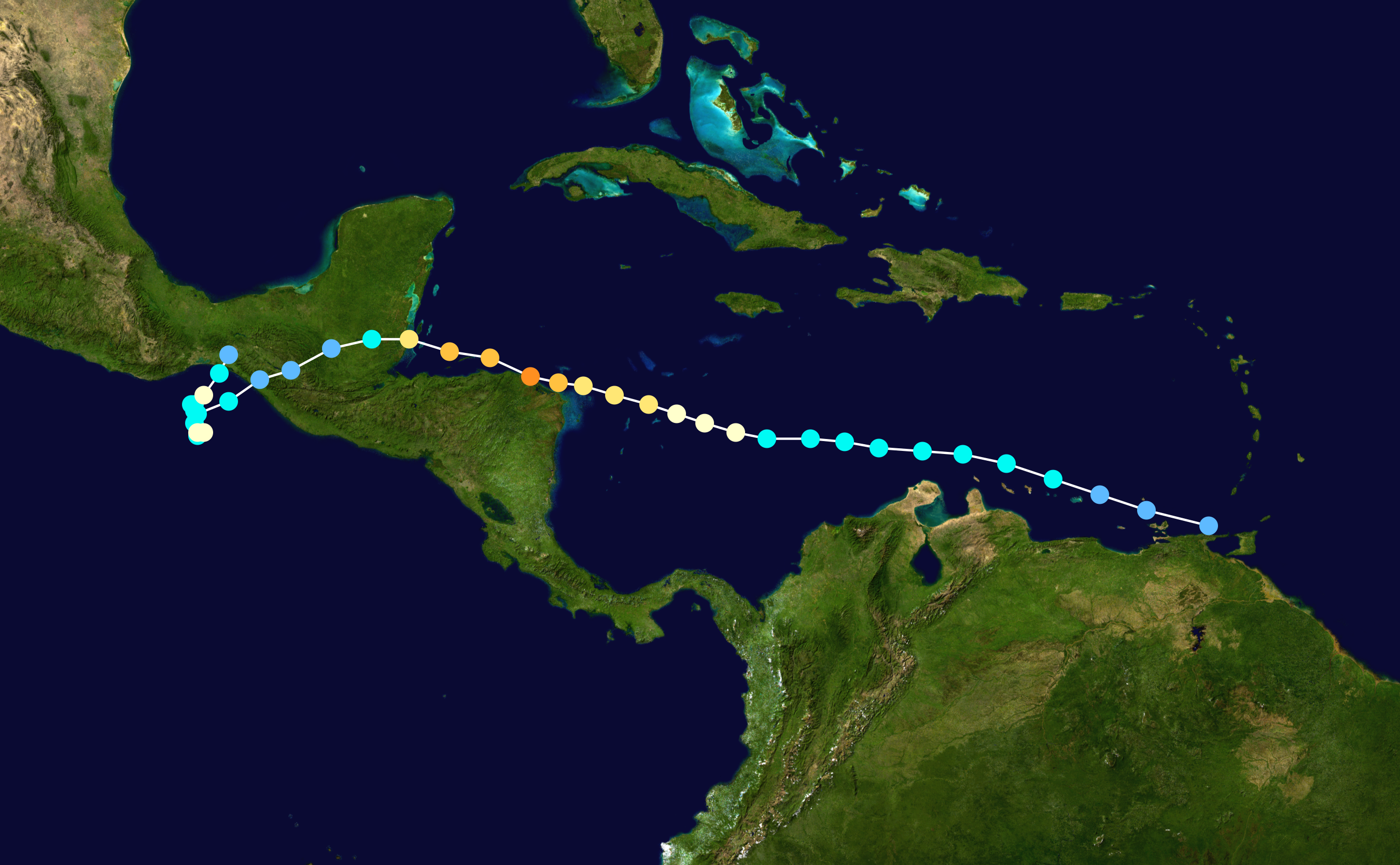 Hurricane Greta-Olivia (1978) track. Uses the color scheme from the Saffir-Simpson Hurricane Scale.